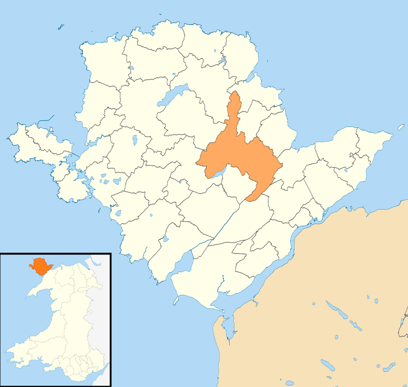 Location map of the community (civil parish) of Llanddyfnan in Ynys Môn / Anglesey, Wales.